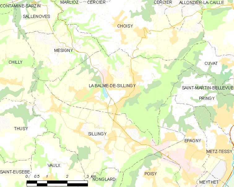 Map of French municipality La Balme-de-Sillingy